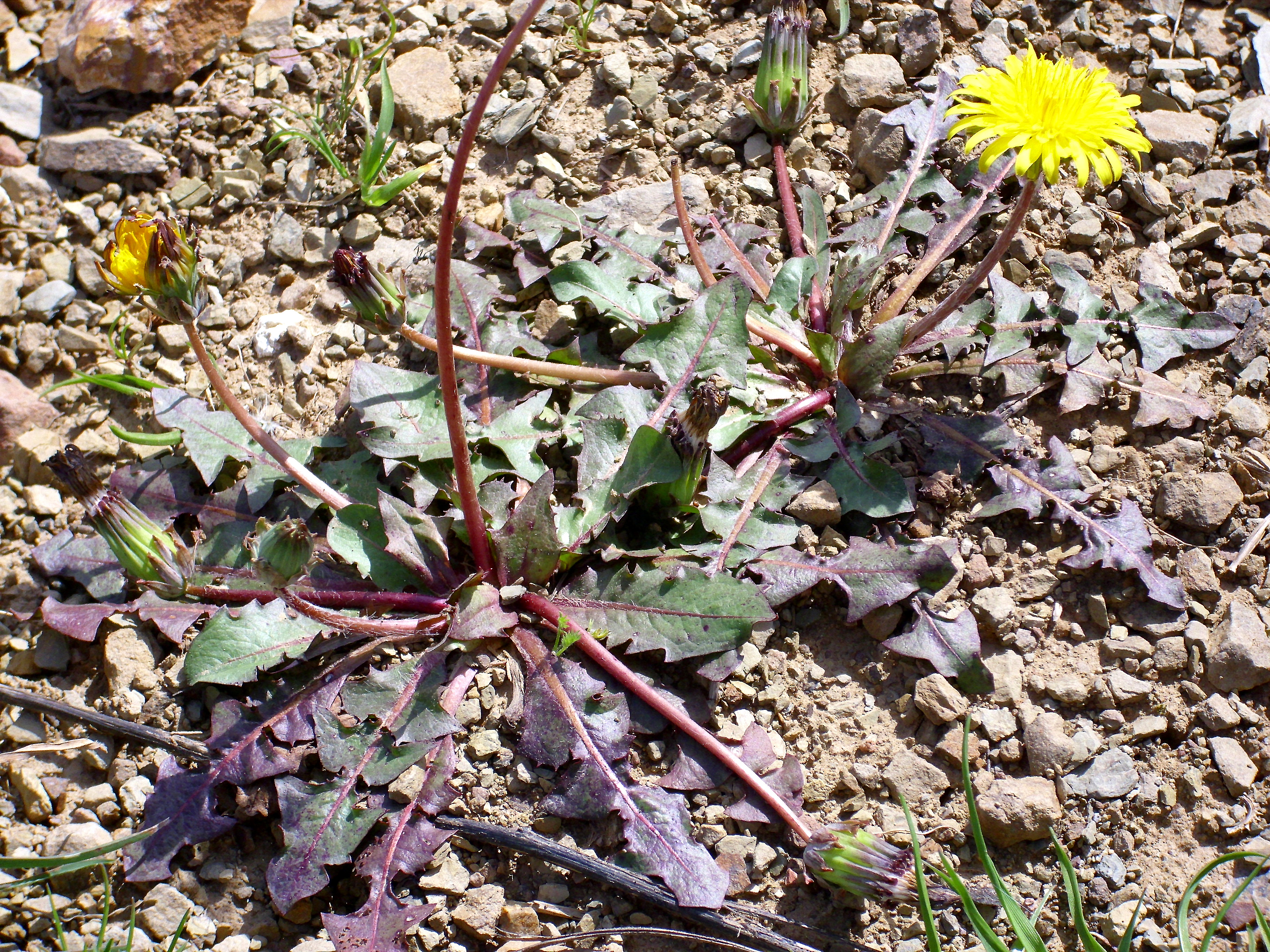 Taraxacum laevigatum basal leaves rossette and inflorescence, Dehesa Boyal de Puertollano, Spain